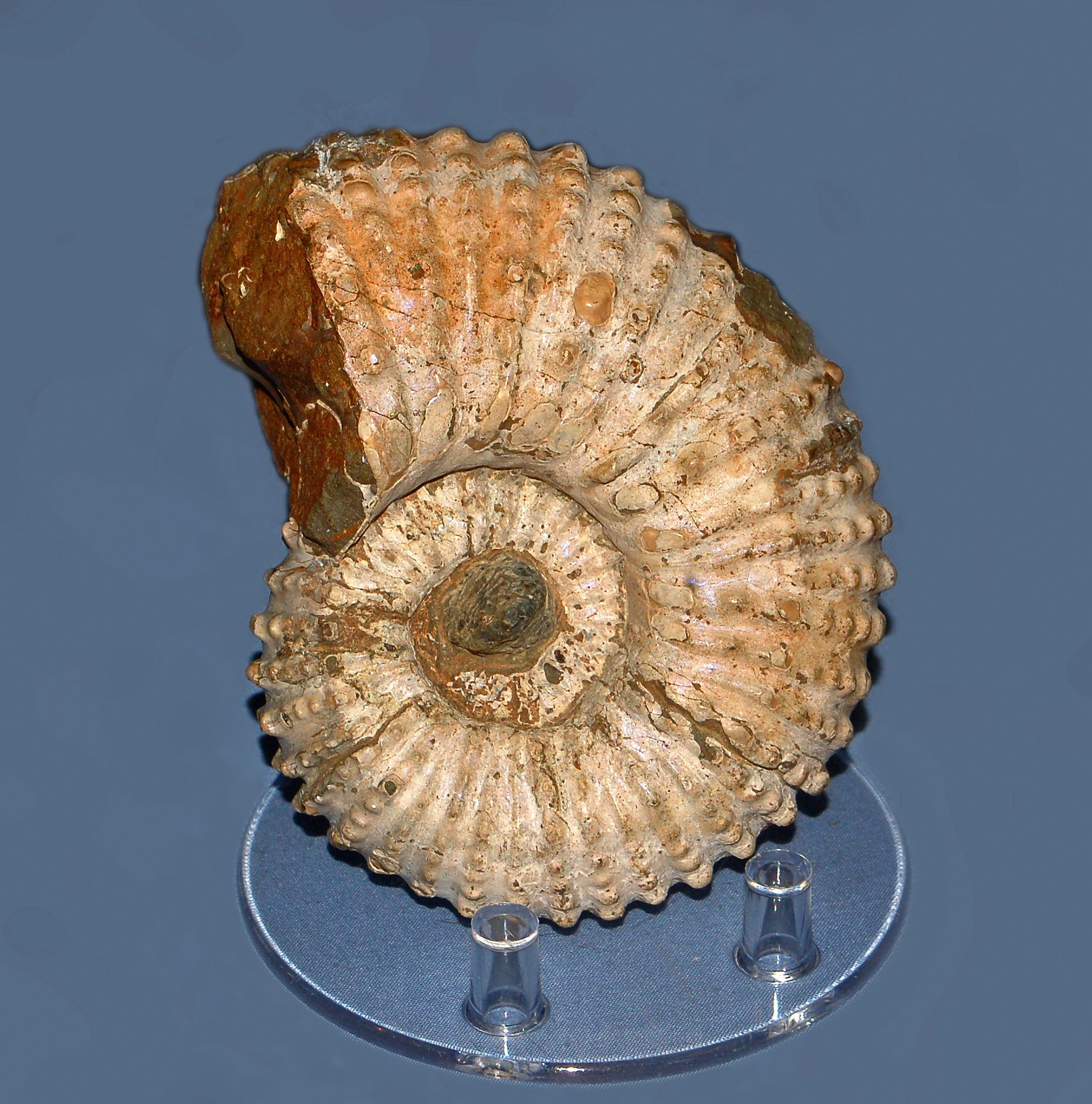 crop of file in file name